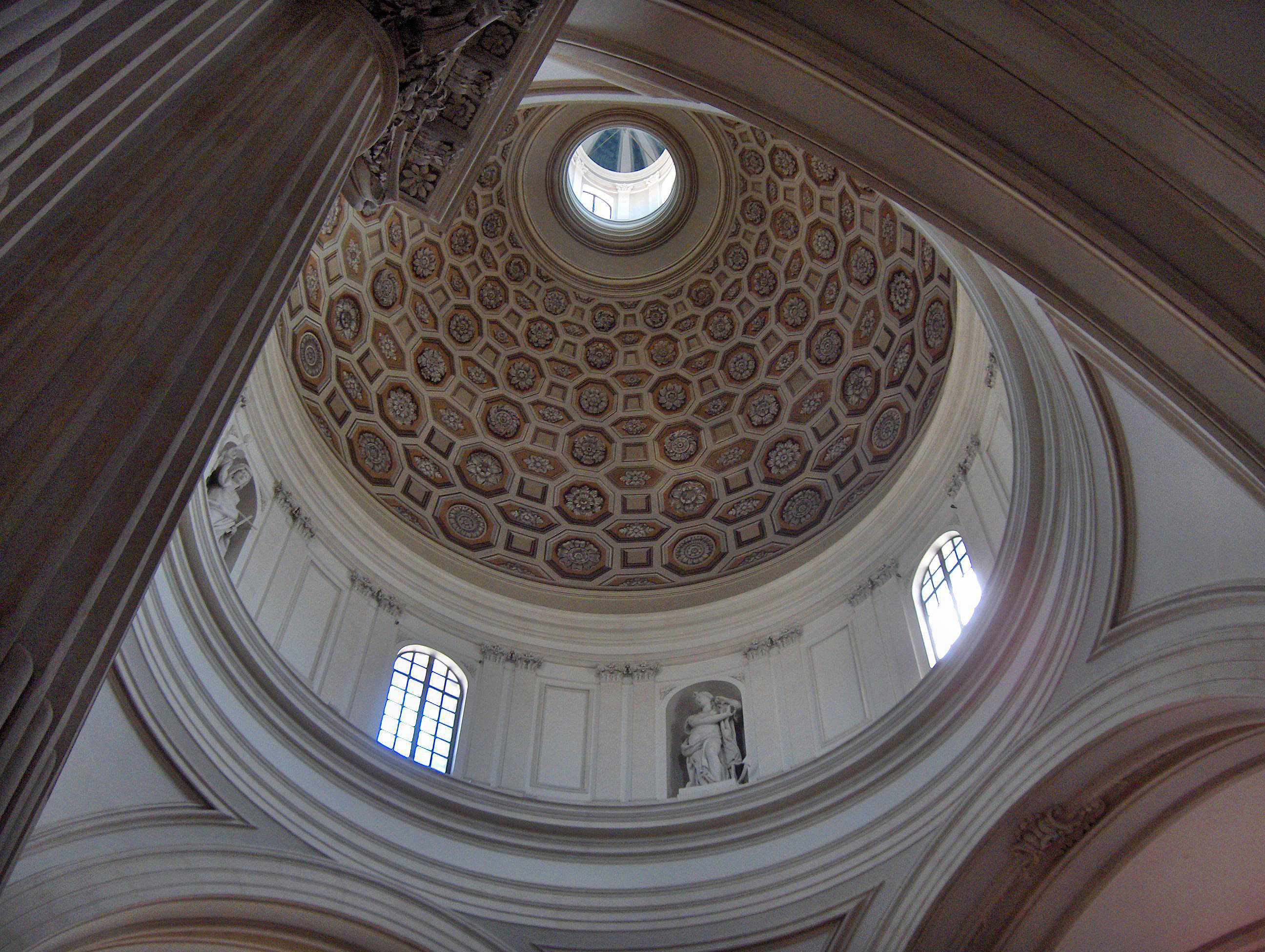 Dome (1543-1548) of the Cathedral of San Feliciano, Foligno, Italy